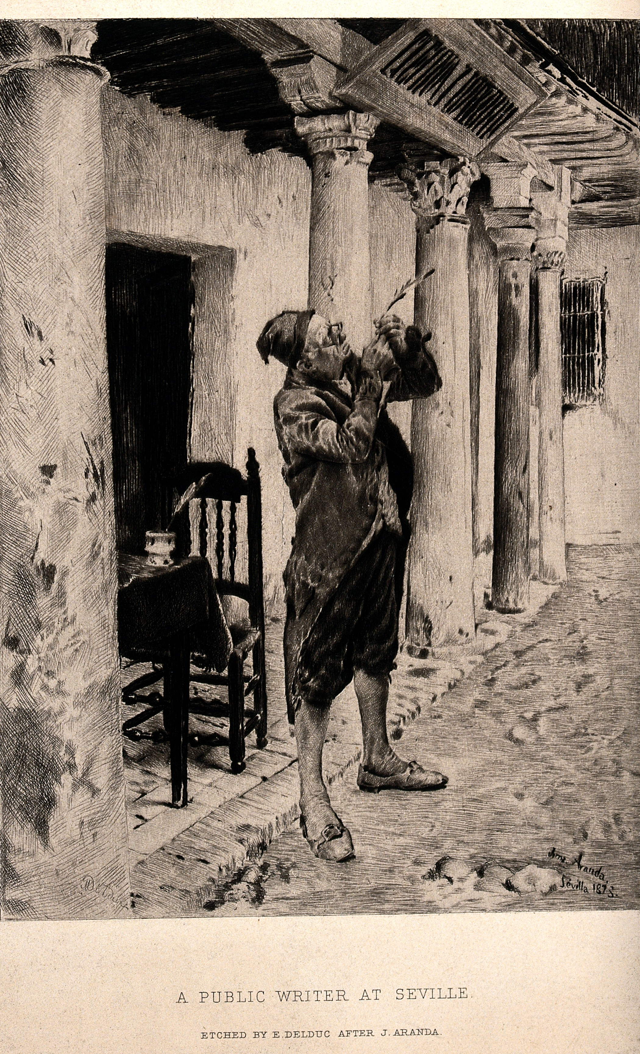 A man is standing in the street with a quill in his hand, there is another quill in an ink-pot on the table nearby. Etching by Edouard Delduc after Jiménez Y Aranda. Iconographic Collections